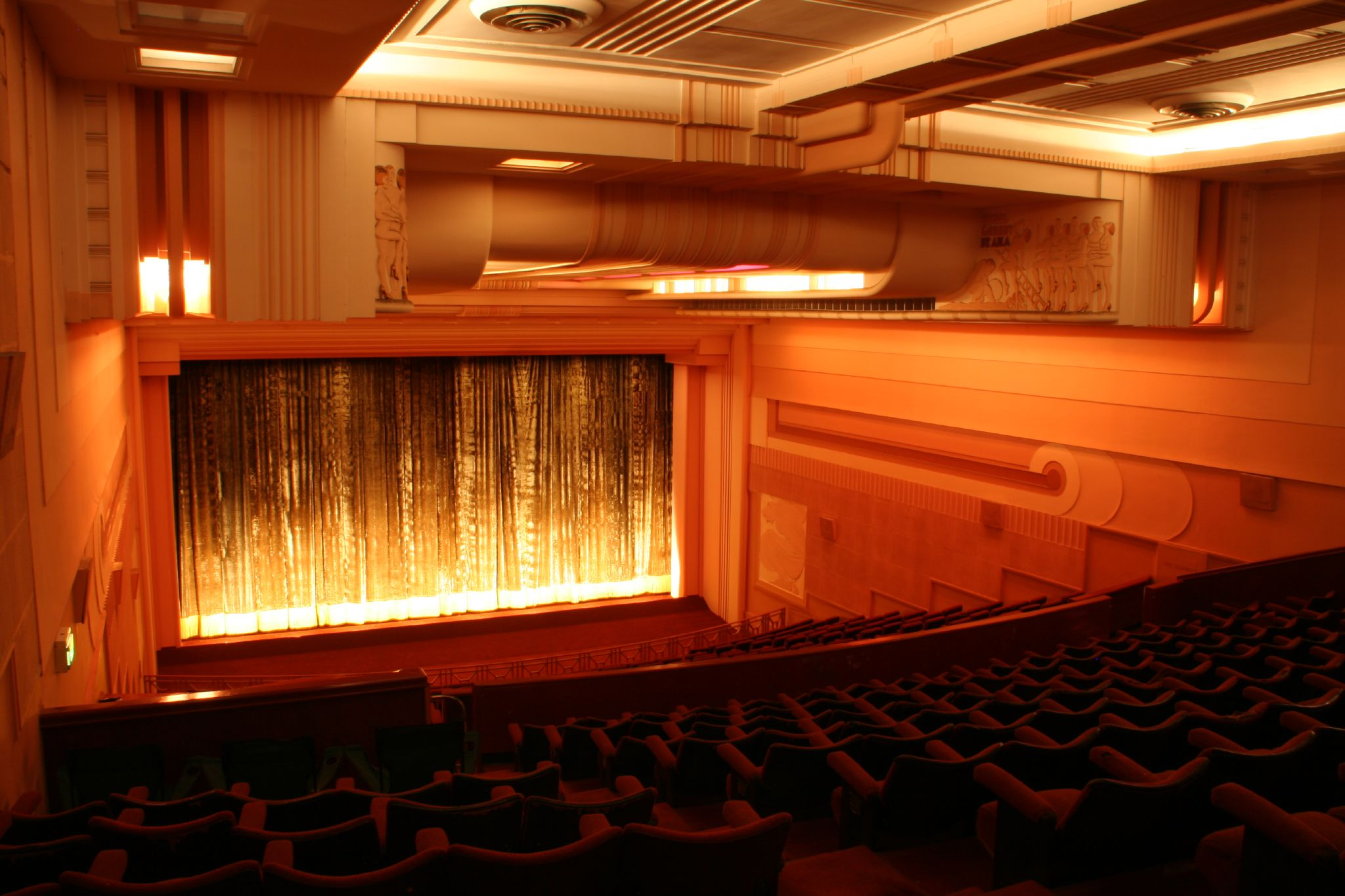 The screen of Piccadilly Cinema in Perth, Western Australia.